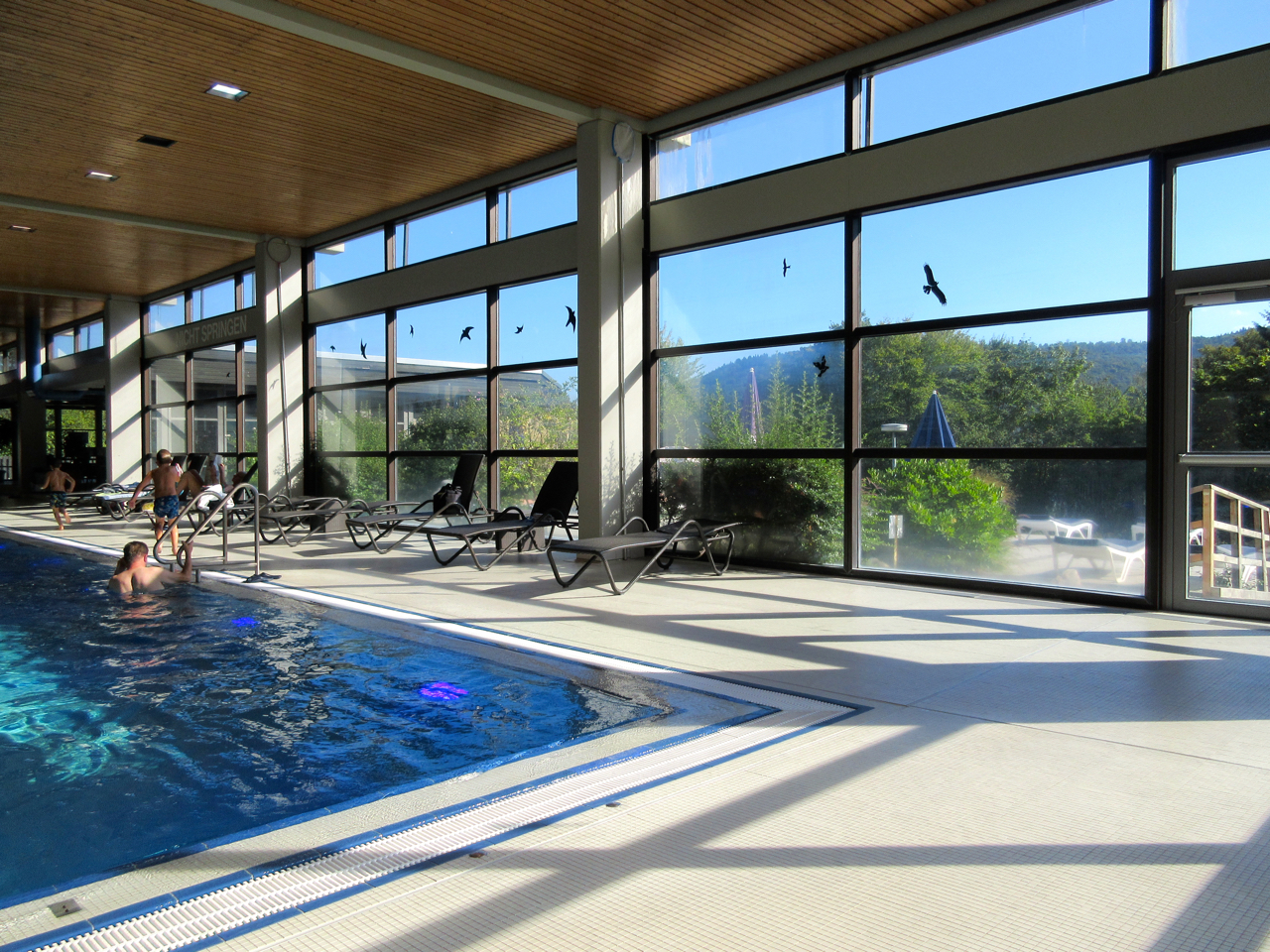 Ziegelhausen swimming bath Köpfel